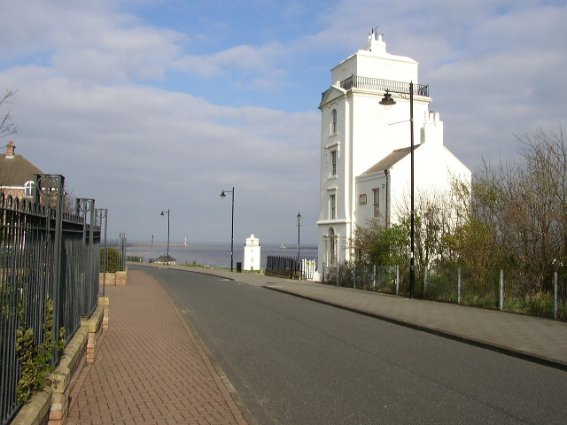 High and Low Lights. The tall white tower in the foreground is the High Light. Mariners entering the piers line up the light with its twin Low Light down on the Fish Quay, this gives them a safe channel into the river.